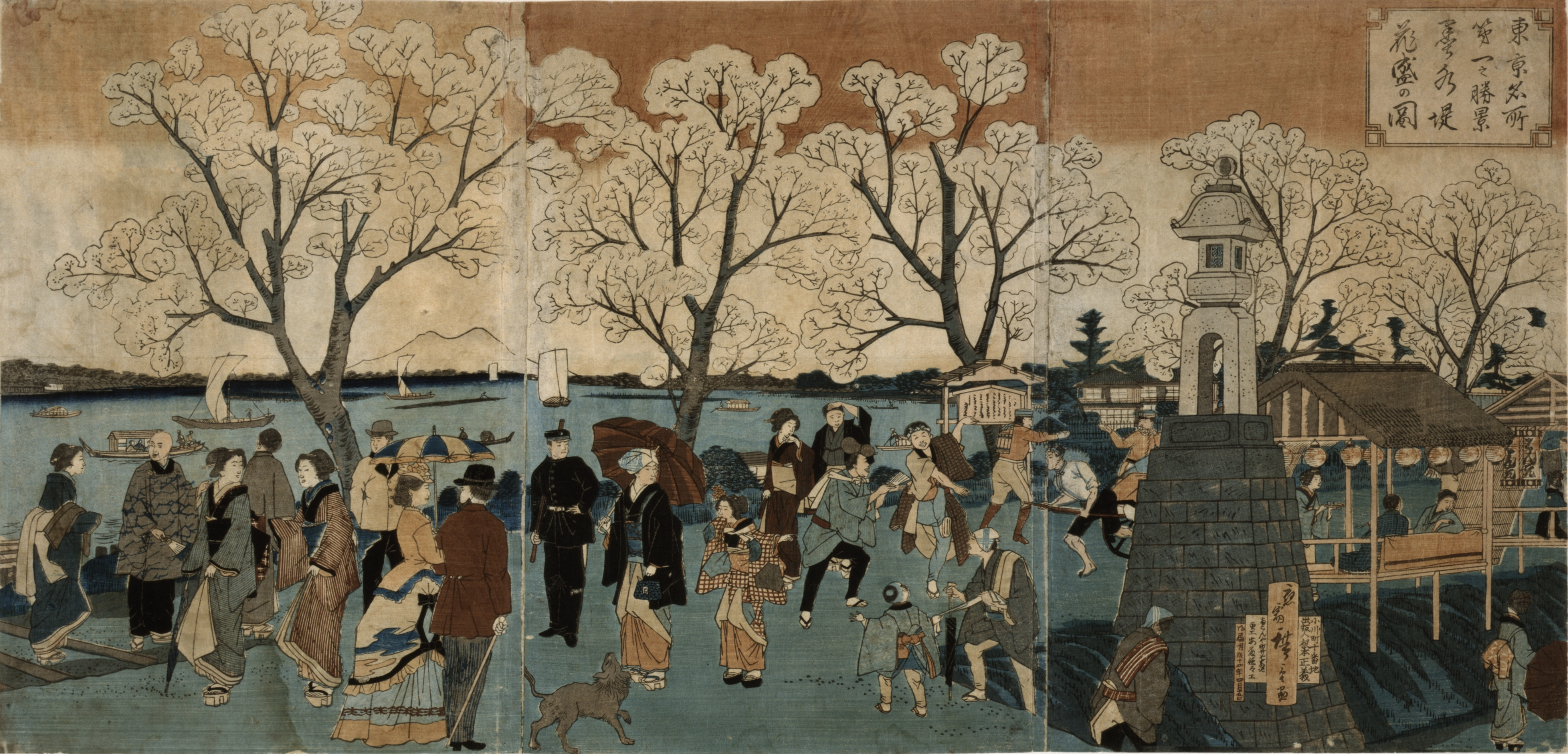 Bokusui tsutsumi hanazakari no zu (Japanese: 墨水堤花盛の図, "Cherry blossoms in full bloom on the banks of the Sumida River"). Triptych print showing Japanese and foreign people walking along the Sumida River among cherry trees in full bloom. From series entitled: Tōkyō meisho dai ichi no shōkei (東京名所第一の勝景, "The most beautiful place in Tokyo").